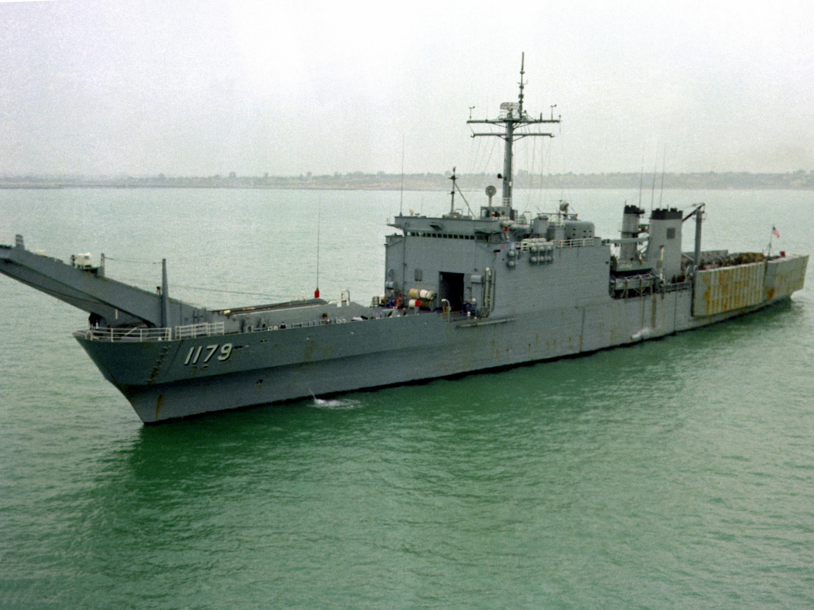 The U.S. Navy tank landing ship USS Newport (LST-1179) leaving the port of Rota, Spain, after a visit in 1982.